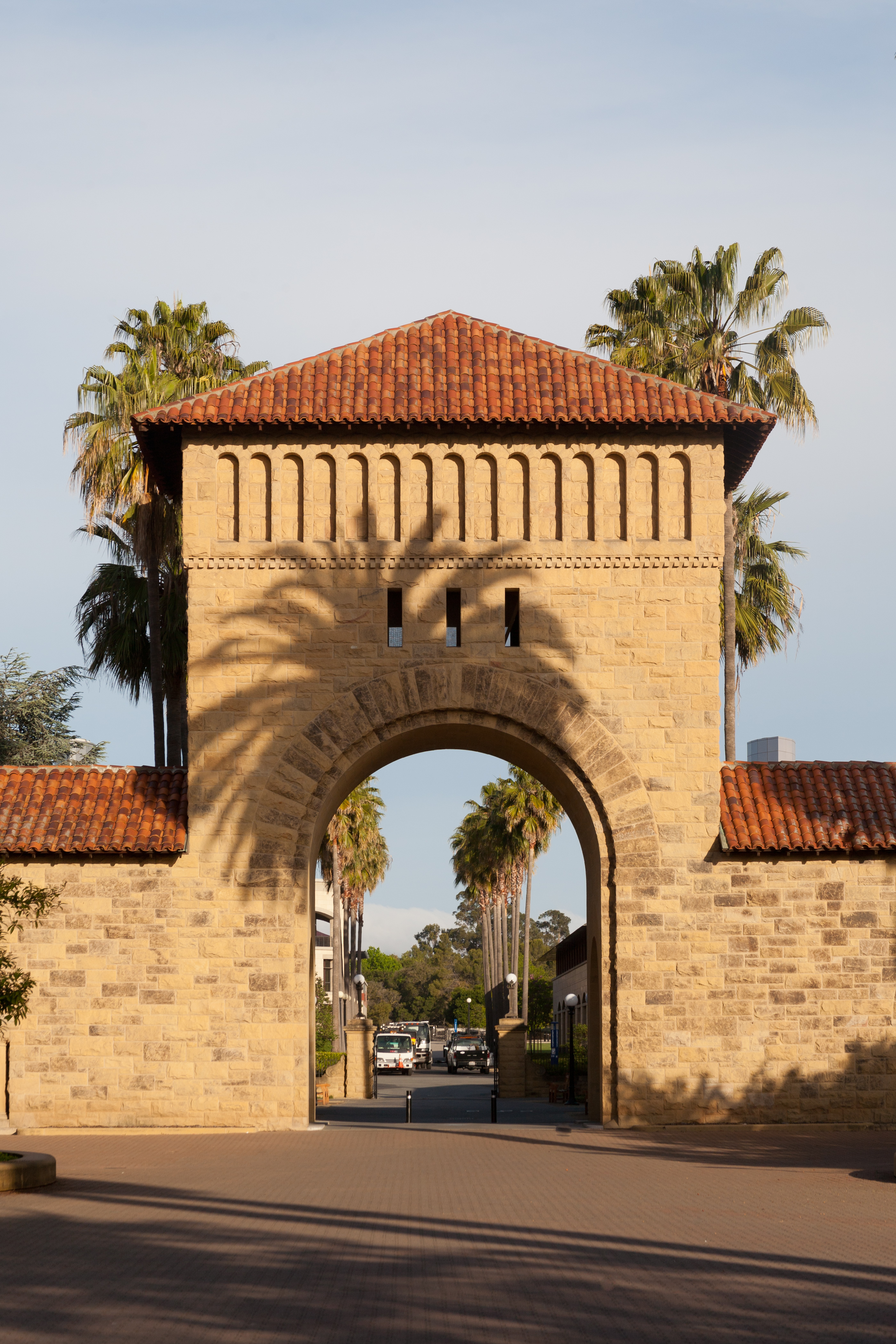 West gate of the Stanford University Main Quad.